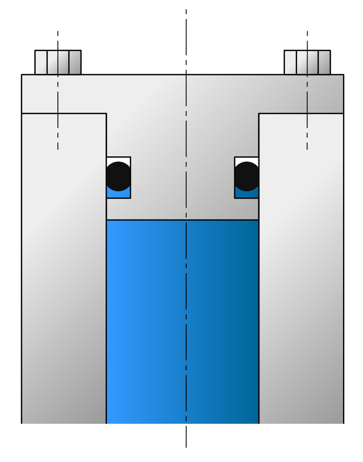 Usage example for static seal by an O-ring. Black circles are the O-ring